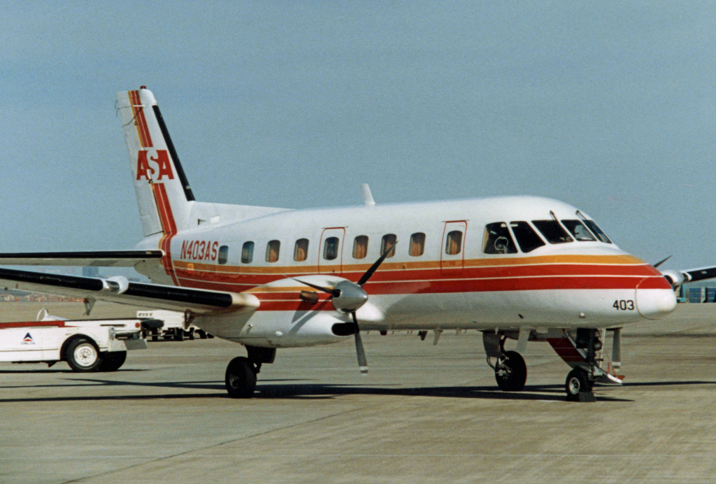 Embraer EMB-110P1 Bandeirante N403AS of Atlantic Southeast Airlines at Dallas DFW in 1987